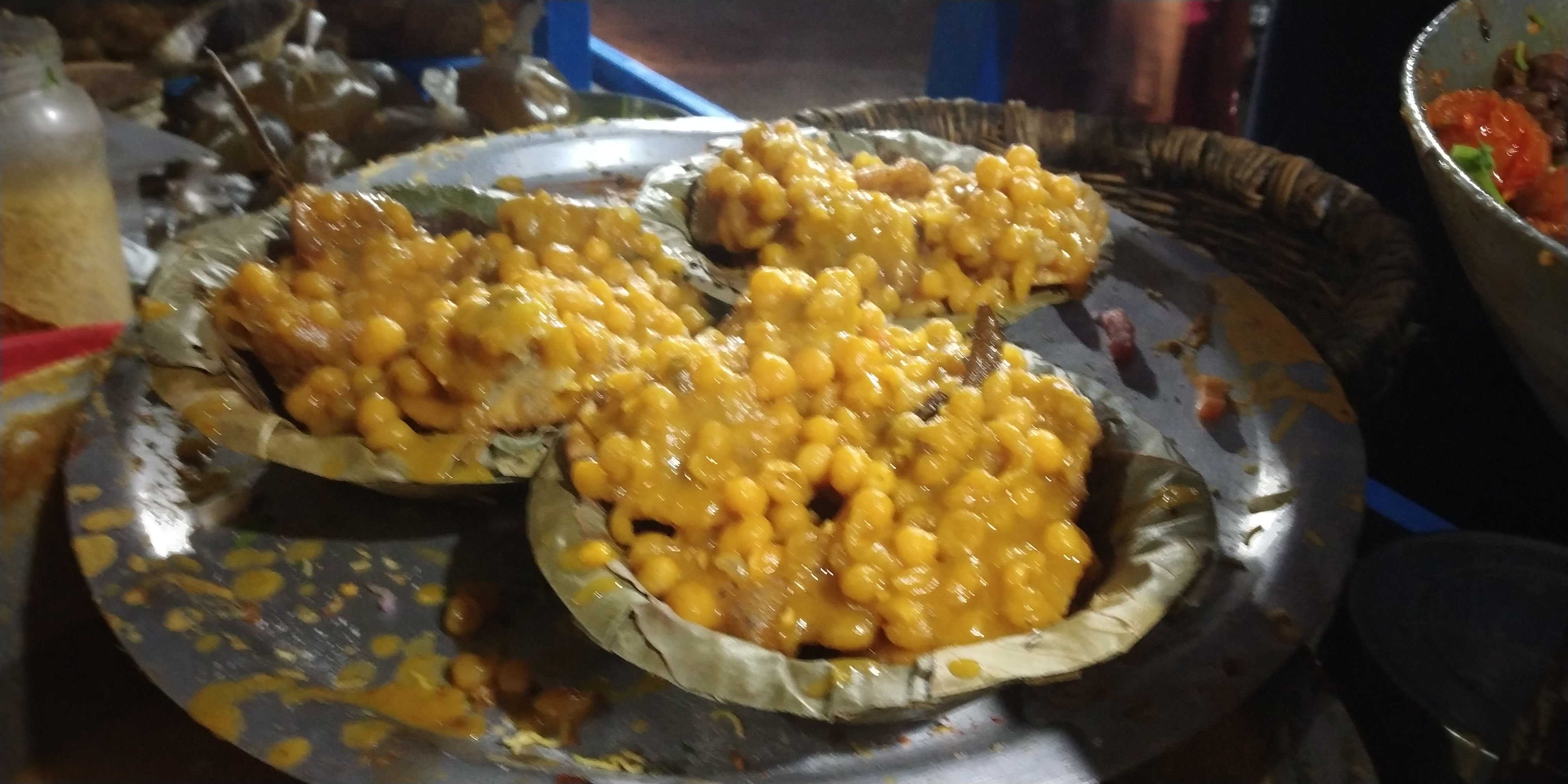 Bhadrak Famous Kalia Ghuguni This photo has been taken in the country: India